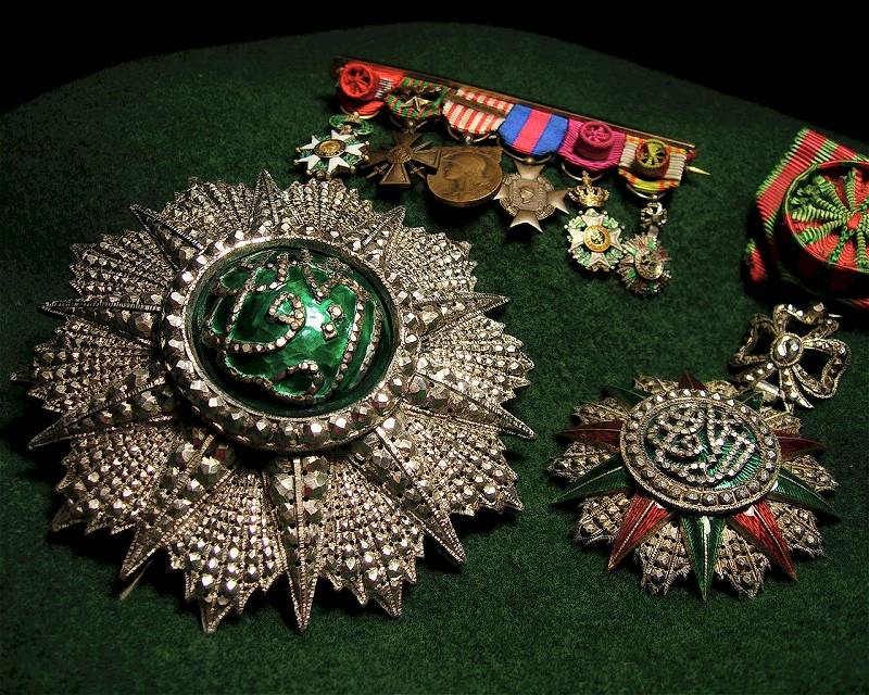 A group of Nichan Iftikhar. Grand cross, miniature medal bar with commander class, and officer class.